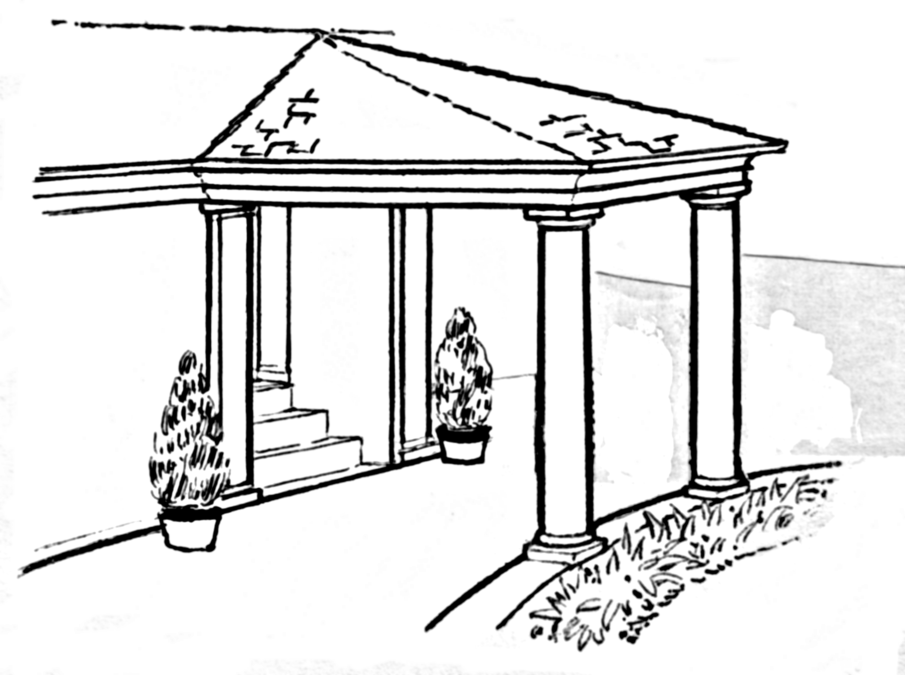 Line art drawing of porte-cochère.